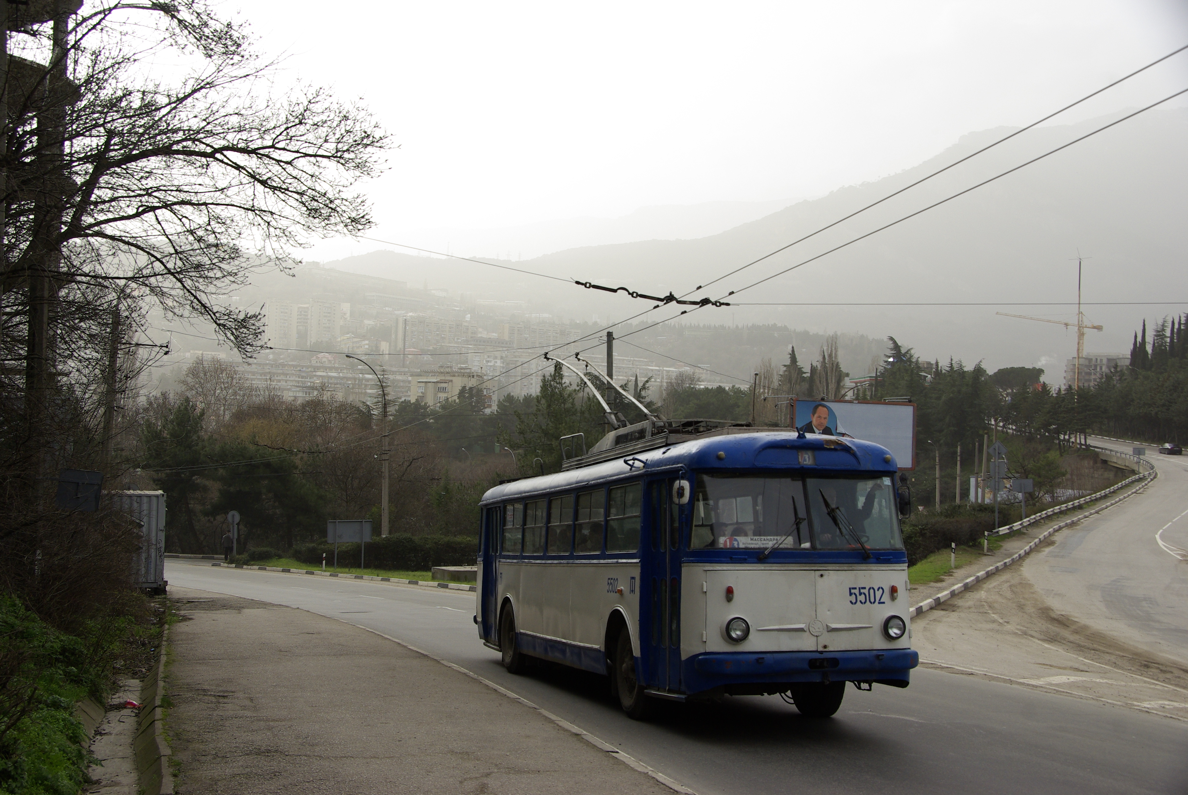 Depart from Yalta to mountain highway. transferred to Simferopol 1502